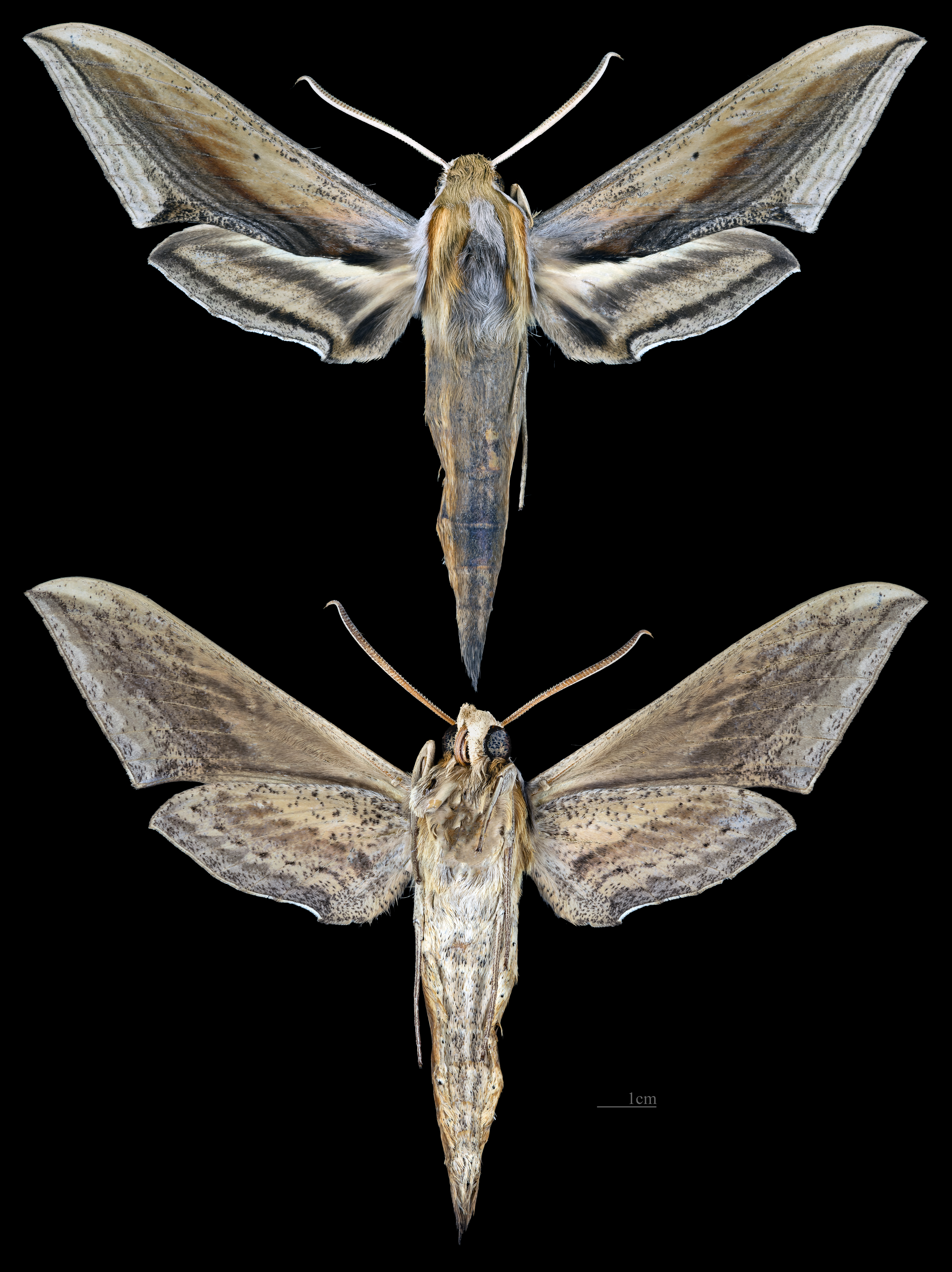 Xylophanes falco - Two views of same specimen Collection of the Mathematician Laurent Schwartz